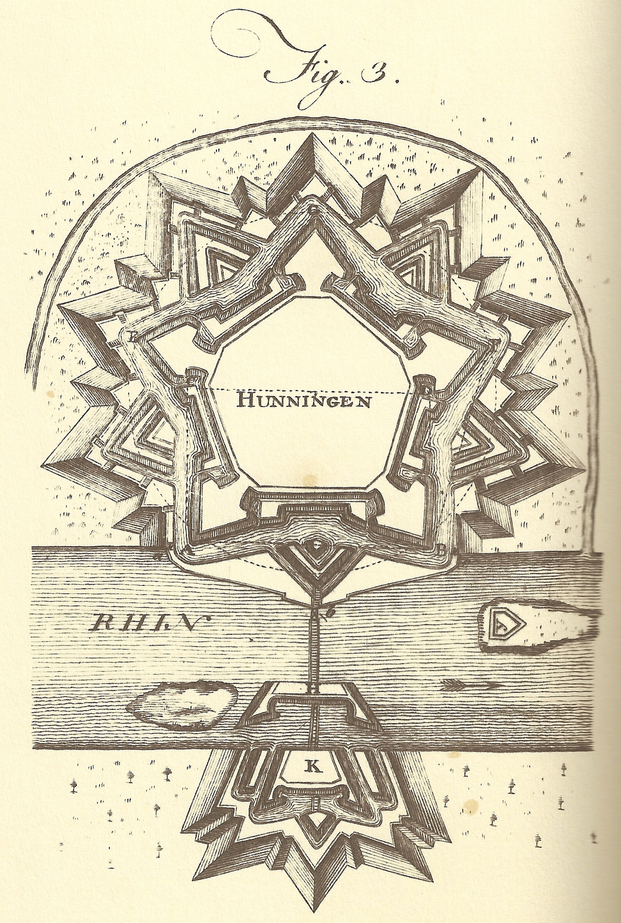 The intricate defences designed by the French military engineer Vauban, during the reign of Louis XIV, to defend Huningue (Hüningen) on the Rhine.